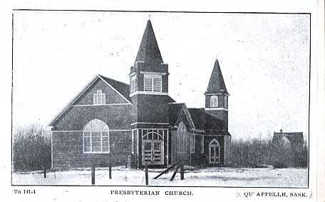 Knox Presbyterian, later United, Church, Qu'Appelle, circa 1910.